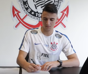 Sport Club Corinthians footballer Guilherme Mantuan